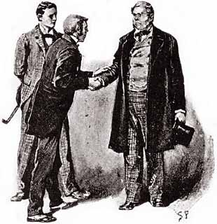 Illustration of the Sherlock Holmes short story The Red-Headed League, which appeared in The Strand Magazine in August, 1891. Original caption was "HE CONGRATULATED ME WARMLY."